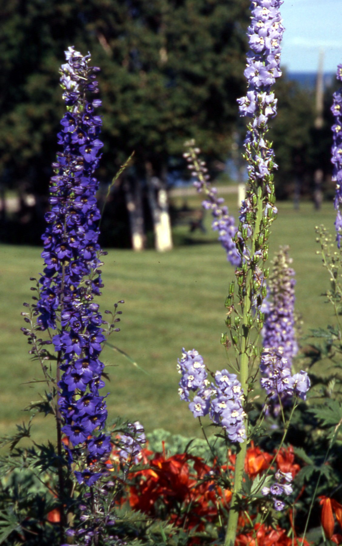 14 Inn at Bay Fortune, PEI